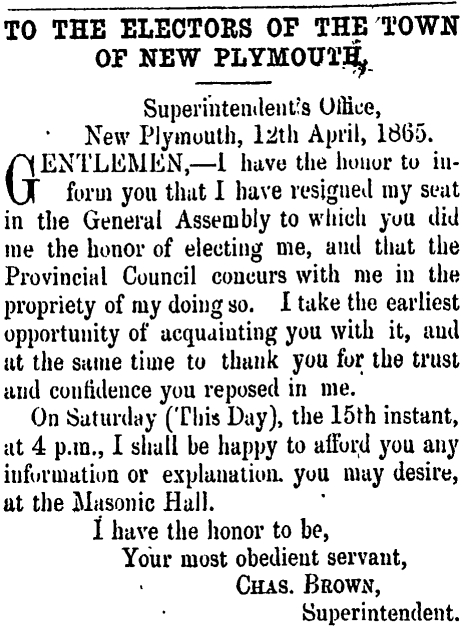 Charles Brown's resignation from the Town of New Plymouth electorate, advertised in the Taranaki Herald on 15 April 1865.